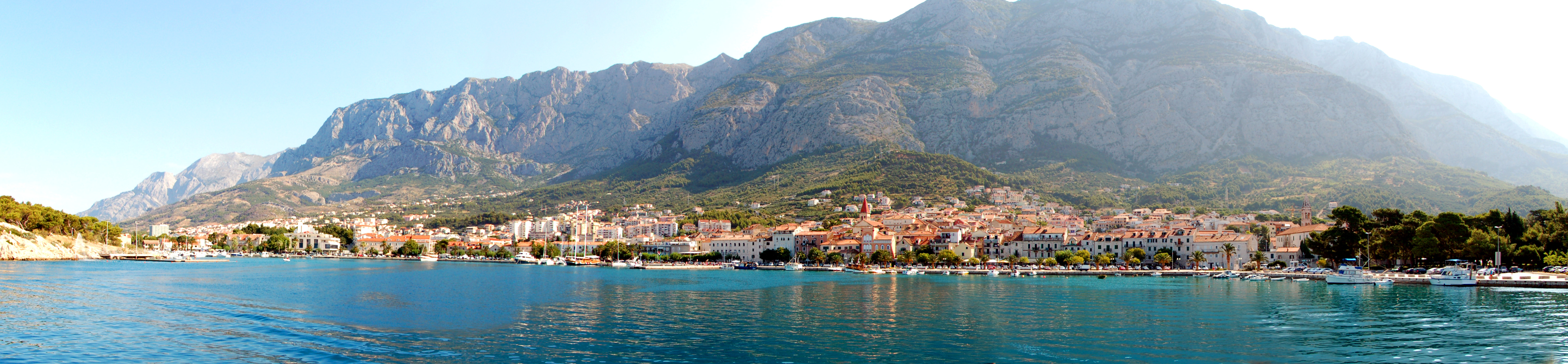 Makarska, Makarska Rivera, Croatia